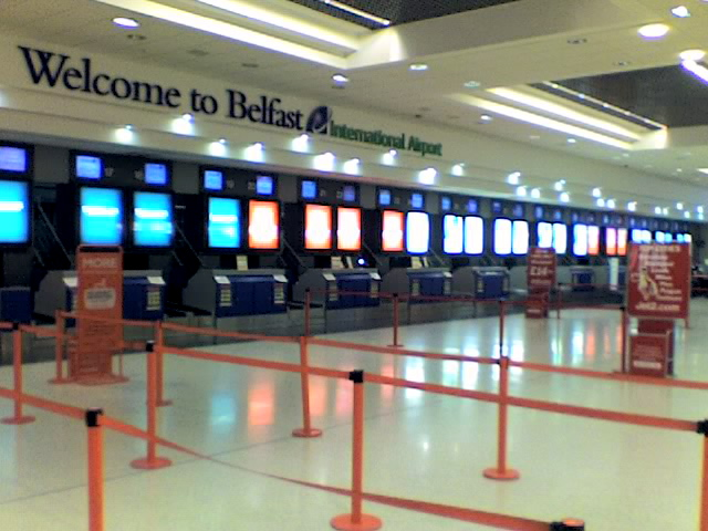 Terminal 1 check-in